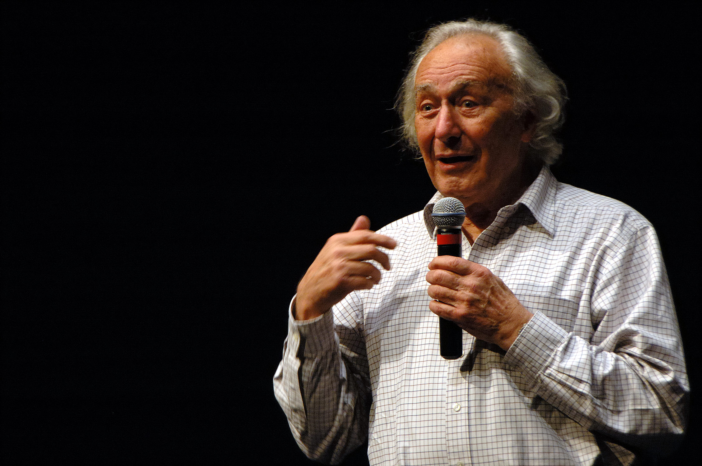 William Klein at the Cinémathèque française